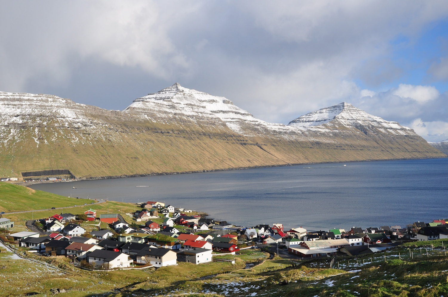 Syđrugøta on Gøtuvík Bay on the island of Eysturoy, Faroe Islands